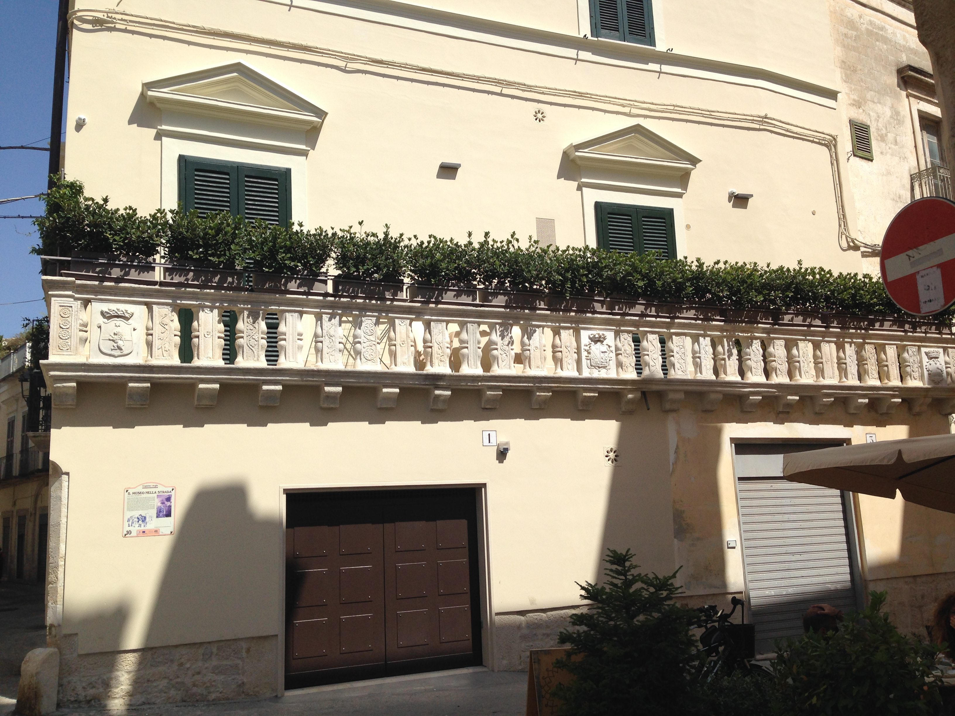 The building where Altamura's Appeal Court (1808-1817) was located